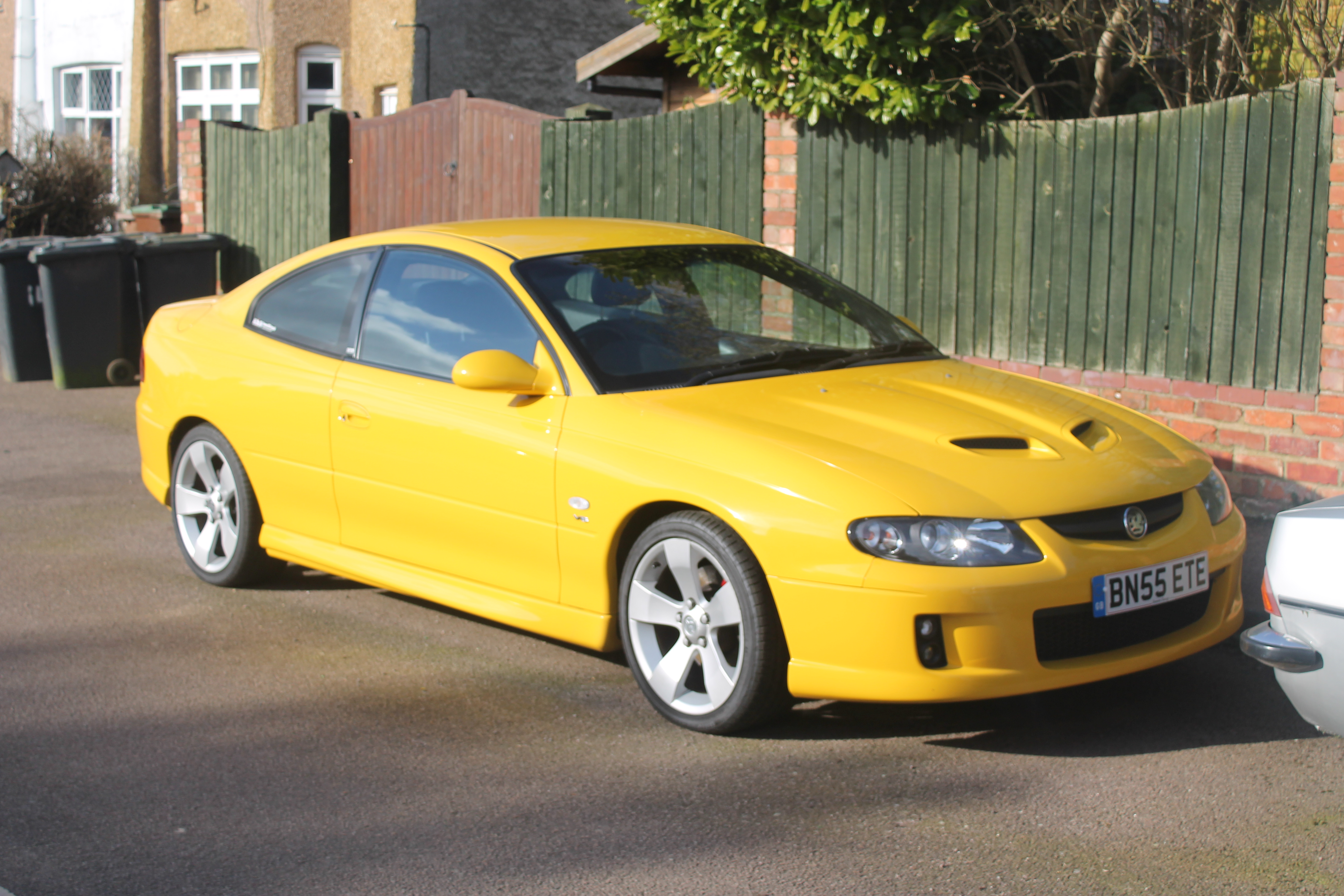 Quite unusual to see in the UK, even more so outside a show, parked on the street like this. You can see that lovely old Opel I uploaded previously, perhaps owned by the same person. Registration number: BN55 ETE ✔ Taxed Expires: 01 March 2015 ✔ MOT Expires: 09 September 2015